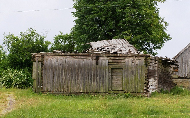 Cellar of Auksūdys, Kretinga district, LithuaniaLietuvių: Auksūdžio svirnas, Kretingos rajonas, Lietuva